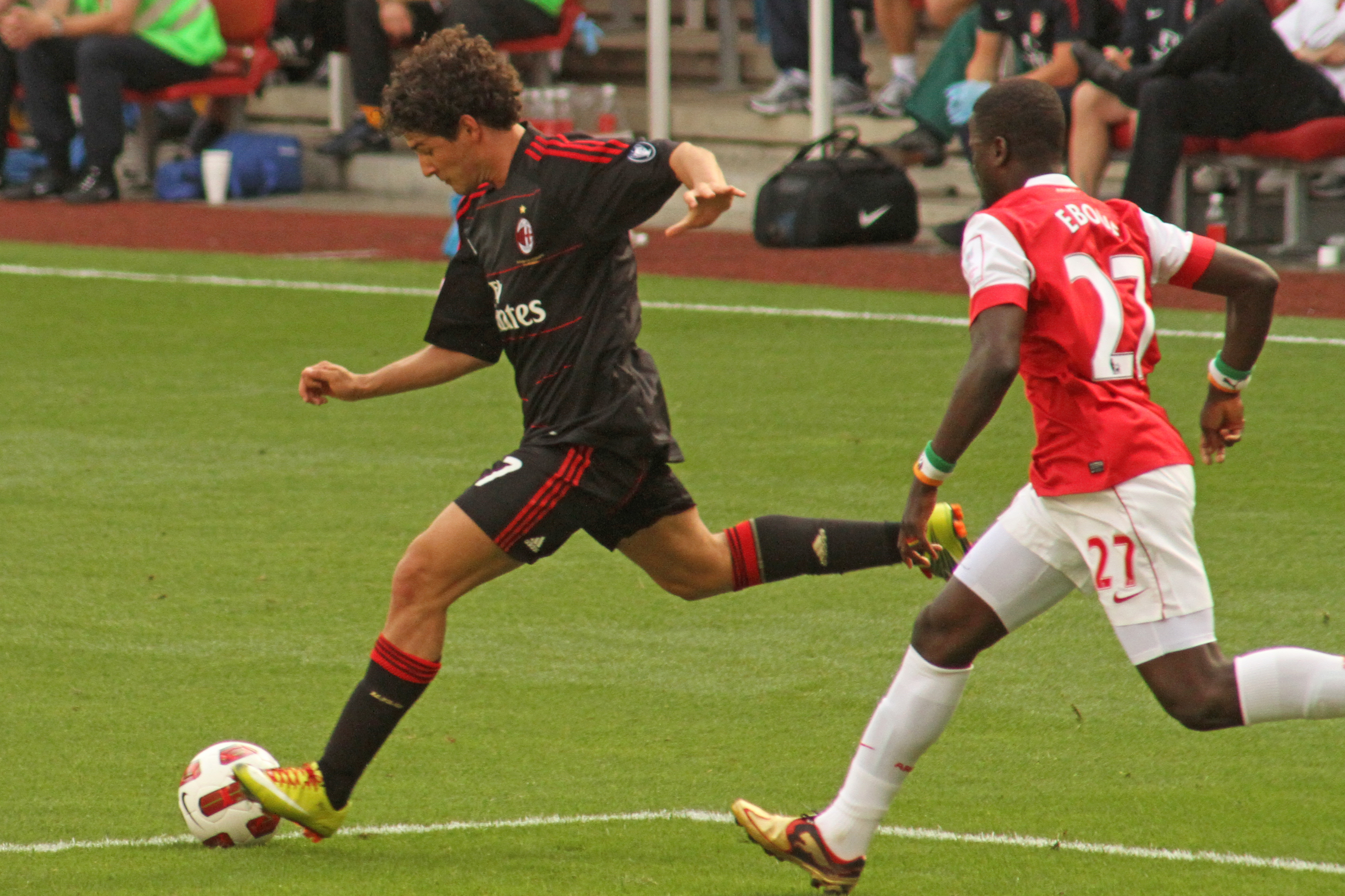 Alexandre Pato and Emmanuel Eboué during Emirates Cup 2010